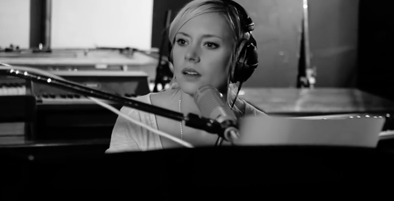 Fredrika Stahl Live Session at Studio Pigalle Paris 2014